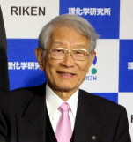 Kōsuke Morita, Professor of the Faculty of Science, Kyushu University, and Kōji Morimoto, Leader of the Superheavy Element Device Development Team, Research Group for Superheavy Element, Nishina Center for Accelerator-Based Science, Riken, attended the press conference with Hiroshi Matsumoto, President of the Riken, and Hideto En'yo, Director of Nishina Center for Accelerator-Based Science, Riken, in Fukuoka City, Fukuoka Prefecture on December 1, 2016.